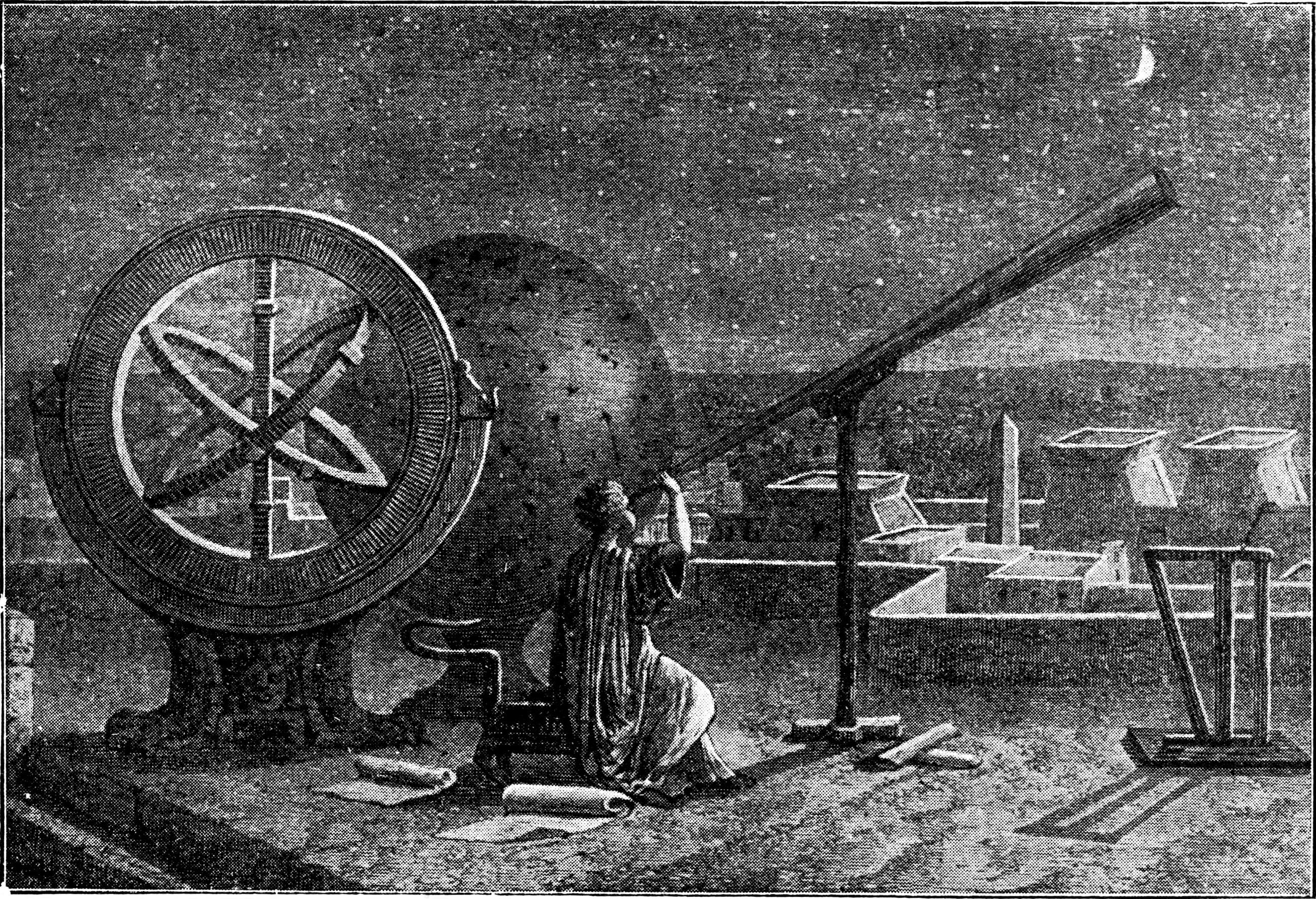 Woodcut Illustration of Hipparchus observing the sky from Alexandria